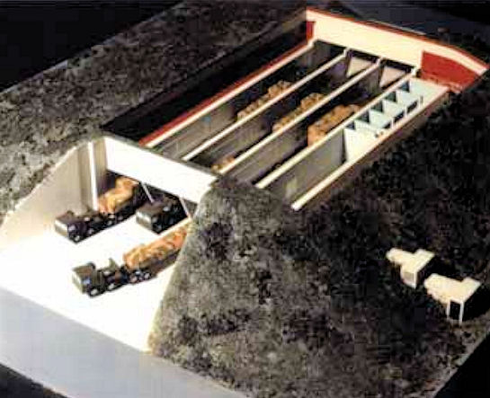 BGM-109G Ground Launched Cruise Missile GAMA (GLCM Alert and Maintenance Area)